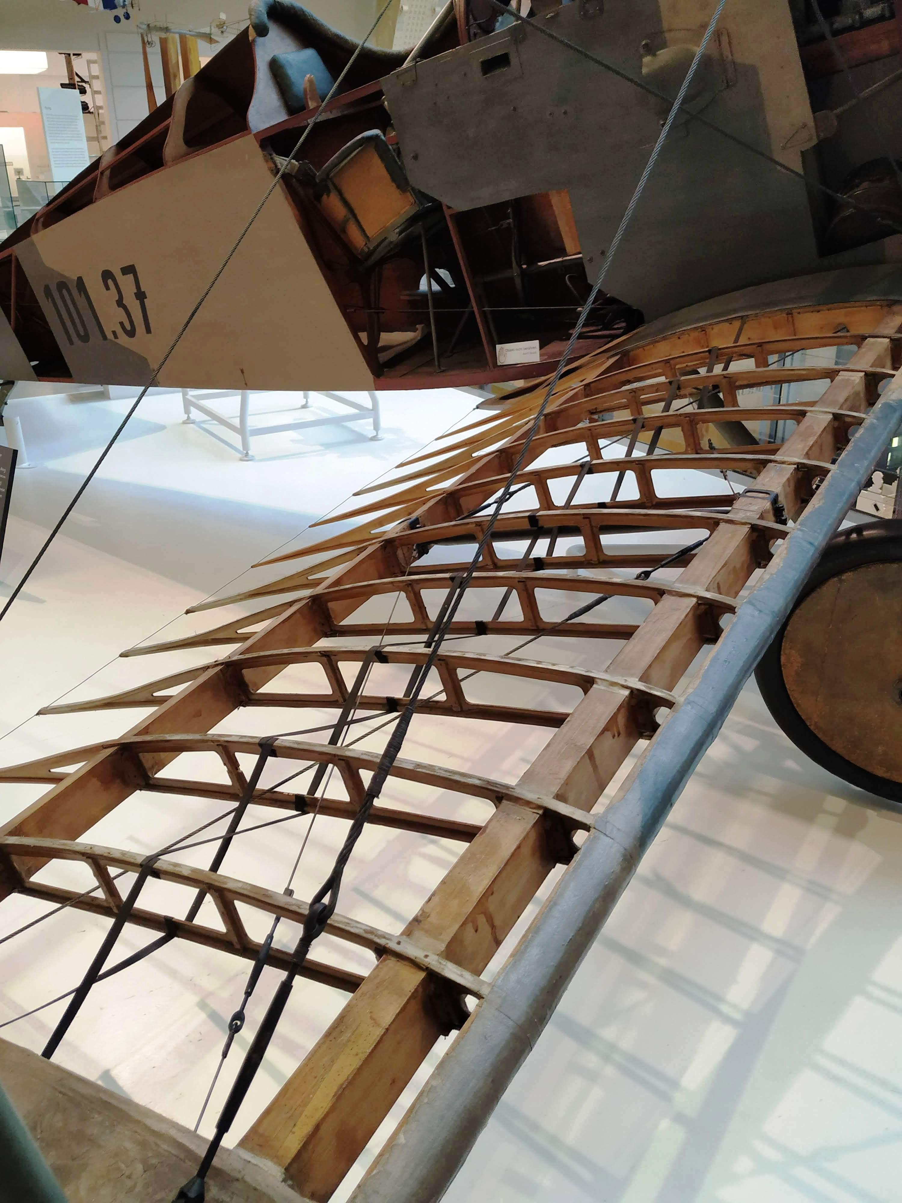 Airplane Aviatik Berg D.1 Lower wing construction